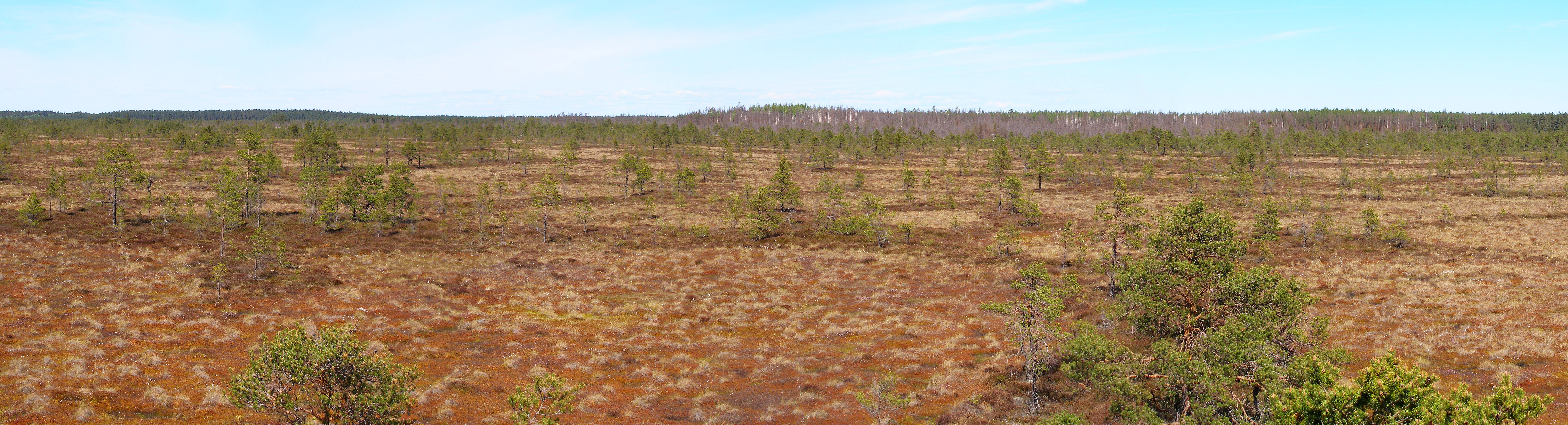 Hara bog in Lahemaa National Park, Estonia.